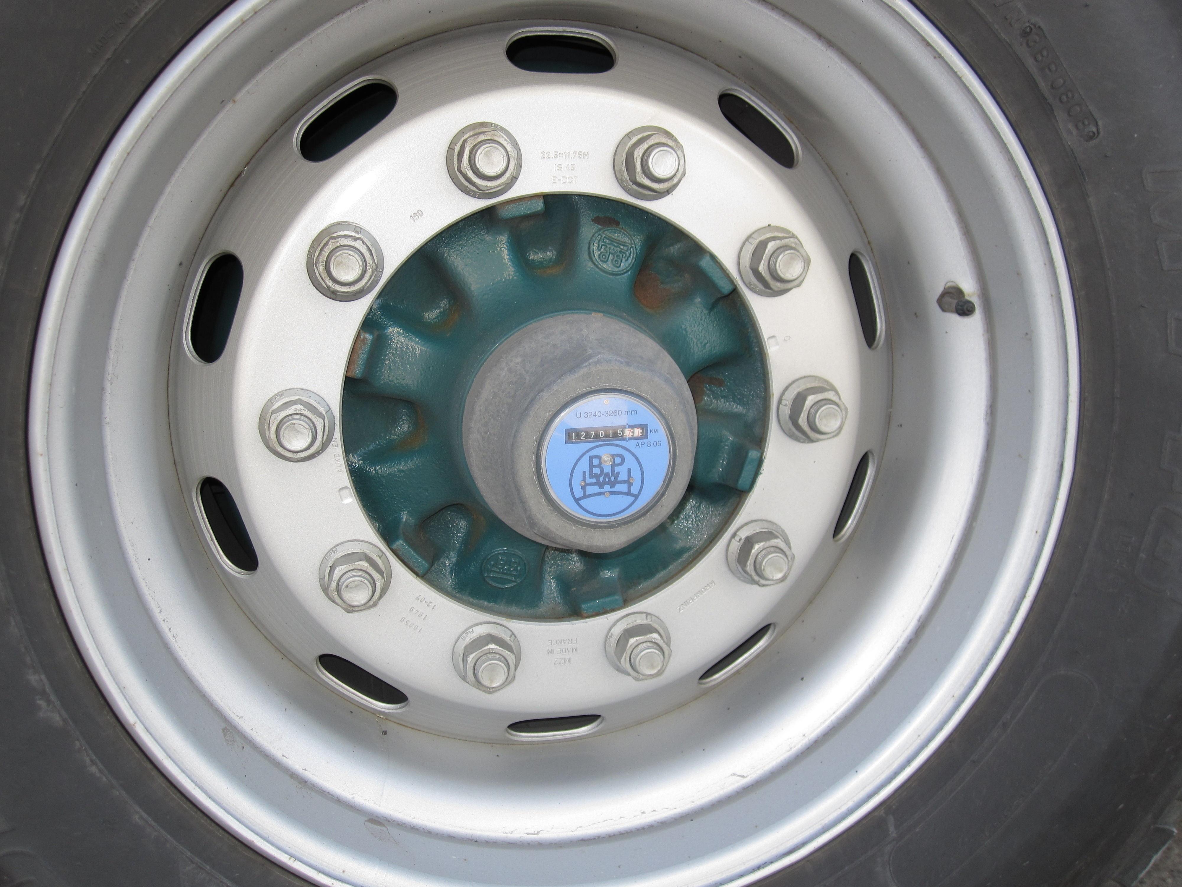 A Hubodometer on a wheel of a semitrailer. It can measure the running performance of the semitrailer.